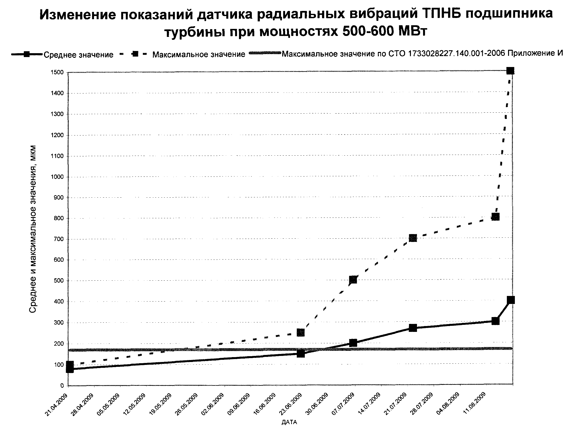 This is a part of the official document archived on Wikisource. Please do not modify this image.